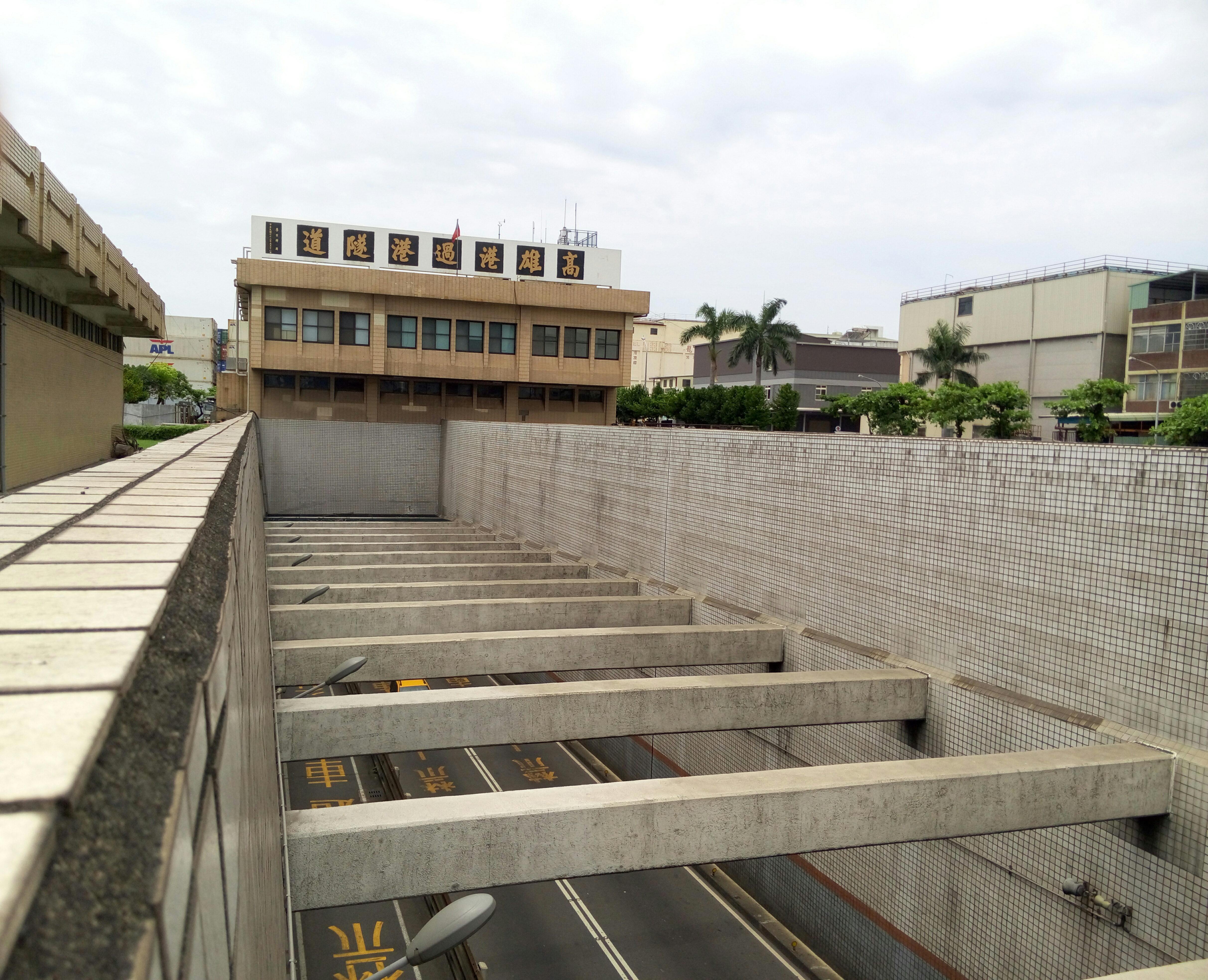 Kaohsiung Harbor Cross-Harbor Tunnel